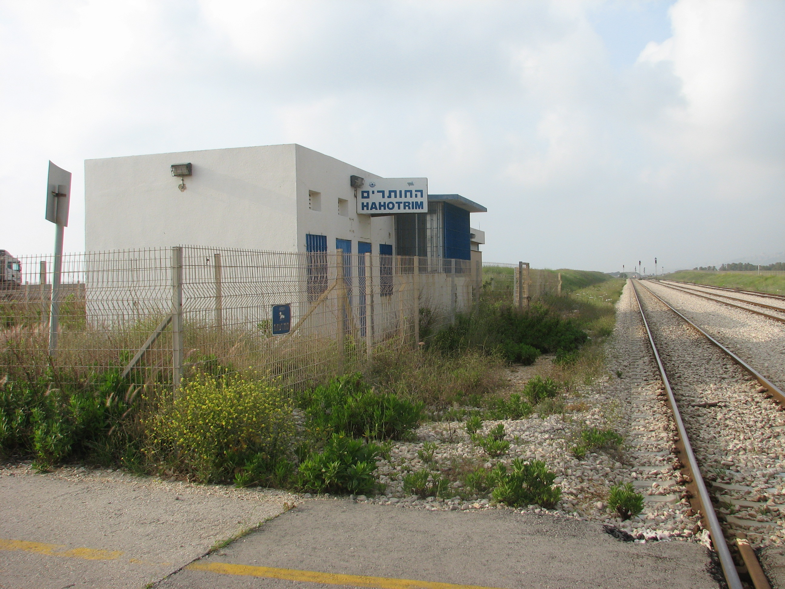 Kibbutz HaHotrim's little cute old station... (inactive; trains between HFA and the South go pass-by.)